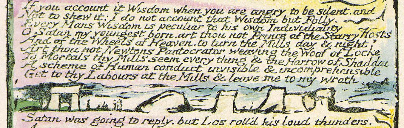 Milton a Poem, copy C, object 4 (Bentley 4, Erdman 6, Keynes 4) detail-a Sector AB Interlinear Illustration: Curving lines right of lines 3-8 in the text may be vines, veins, or sinews. A Druid landscape fills the space between lines 15 and 16 of the text. We see, from left the right, a trilithon with at least one large tree behind it, a group of several standing and perhaps a few sitting figures, a large stone, and what may be side views of three or four more trilithons. Wavy lines right of lines 16-19 of the text, running below line 19, and filling the space between lines 21 and 22 may be vines, veins, or sinews. Component (Sector B) Keywords: vine, veins, sinews Curving lines right of lines 3-8 in the text may be vines, veins, or sinews. Wavy lines right of lines 16-19 of the text, running below line 19, and filling the space between lines 21 and 22 continue this motif Component (Sector AB) Keywords: Druid, trilithon, stone, tree A Druid landscape fills the space between lines 15 and 16 of the text. We see, from left the right, a trilithon with at least one large tree behind it, a large stone, and what may be side views of three or four more trilithons. Component (Sector A) Keywords: group of figures, standing, sitting, Druid To the left of the left-most trilithon between lines 15 and 16 of the text are some small forms that may be standing and sitting figures. Given their context among trilithons, these may be Druids. Component (Sector A) Keywords: grass Green coloring beneath the left-most trilithon and the group of figures suggests grass. Component (Sector AB) Keywords: sky, cloud, sunrise, sunset Cloud outlines appear in the interlinear design between lines 15 and 16 of the text. Blue, pink, and yellow washes indicate sky at sunrise or sunset.